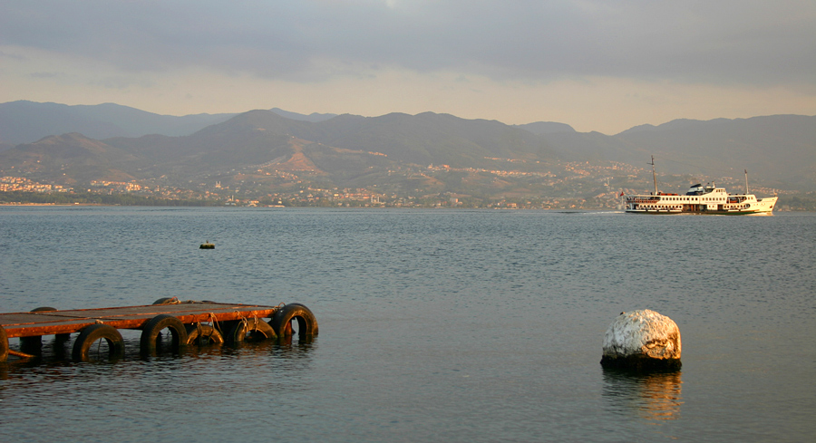 A ferry leaving İzmit for its destination.